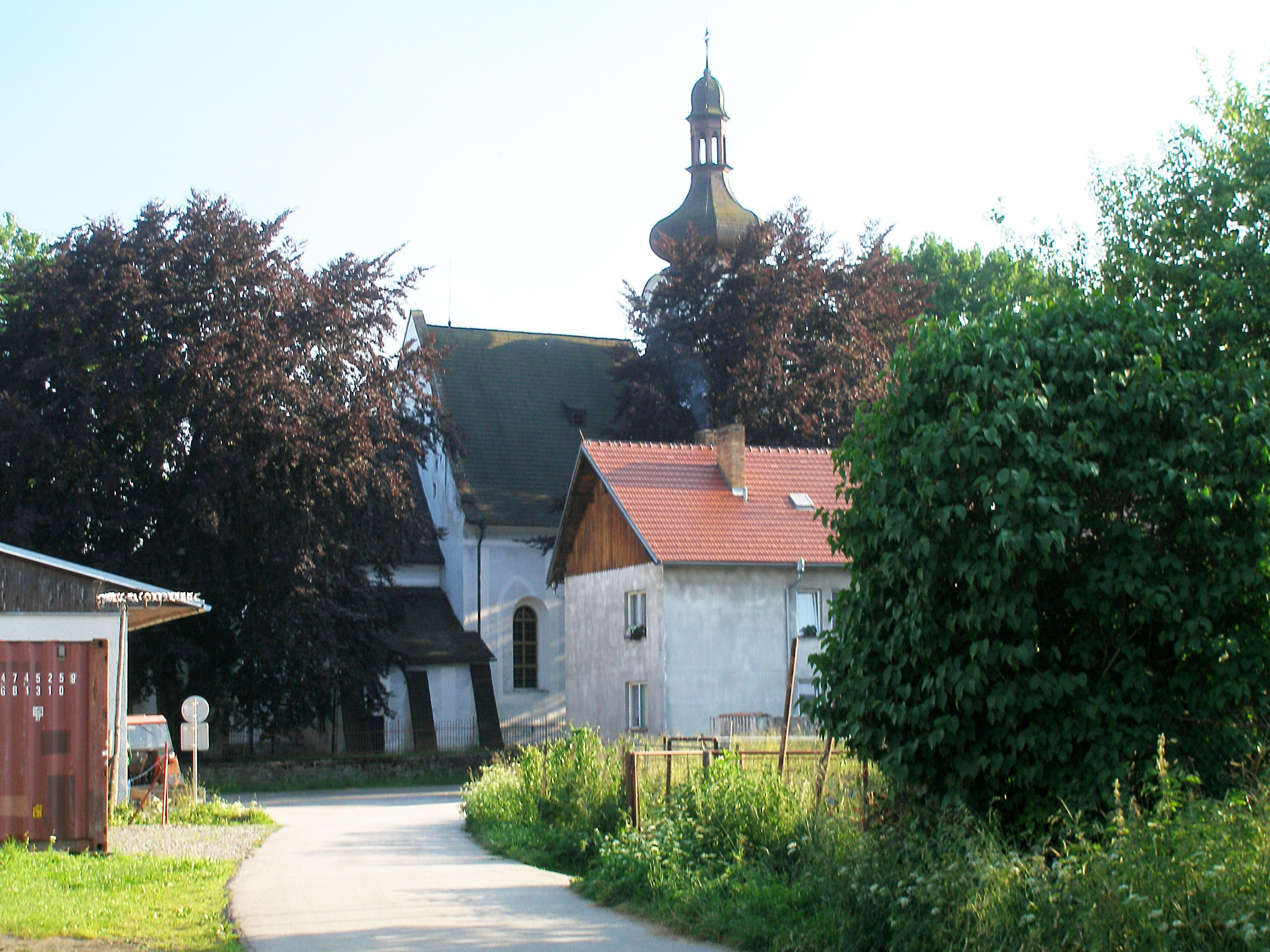 The church of Saint Michael in Horní Dvořiště